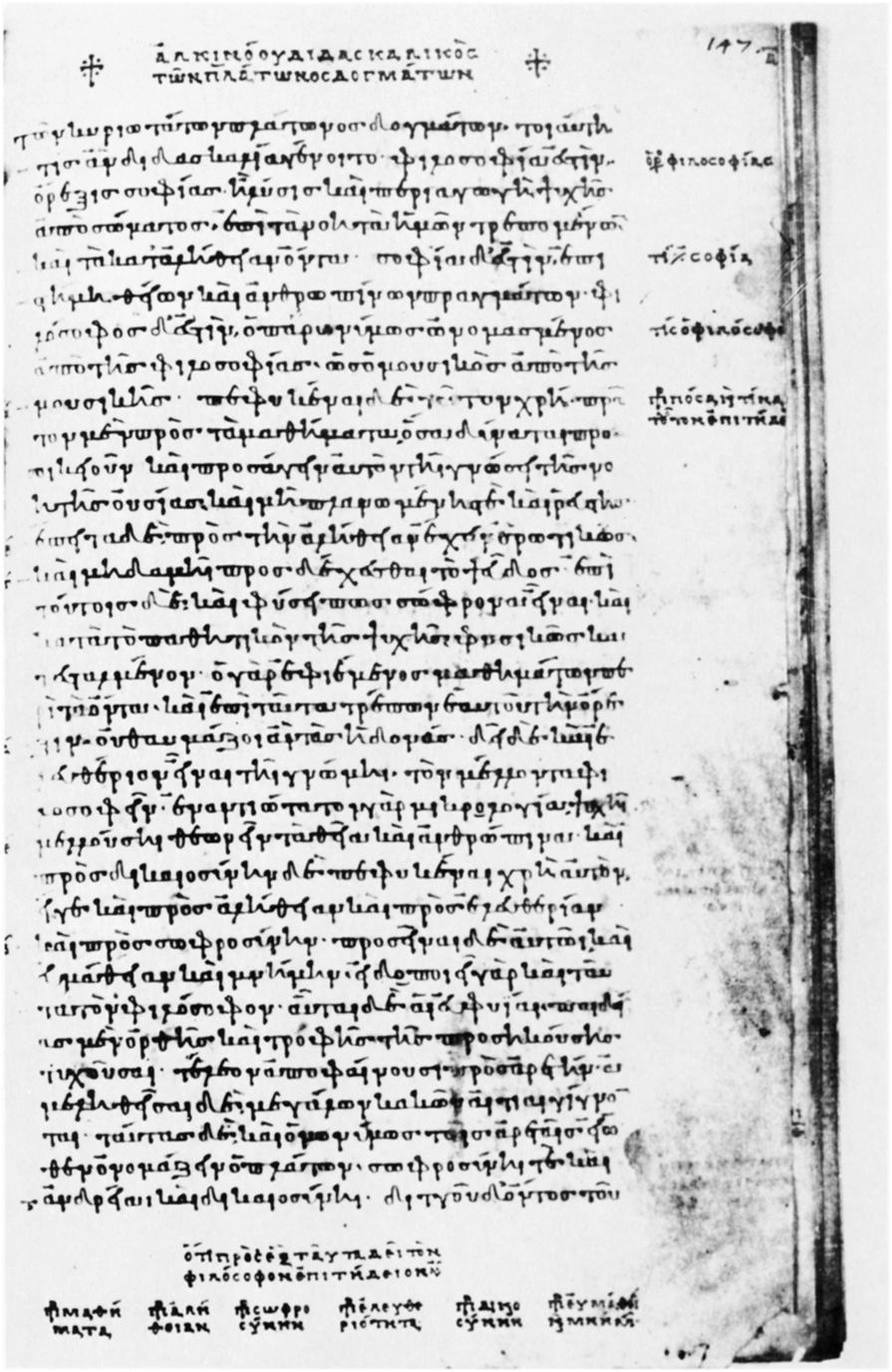 9th century manuscript Parisinus graecus 1962, fol. 147r with text by Alcinous.